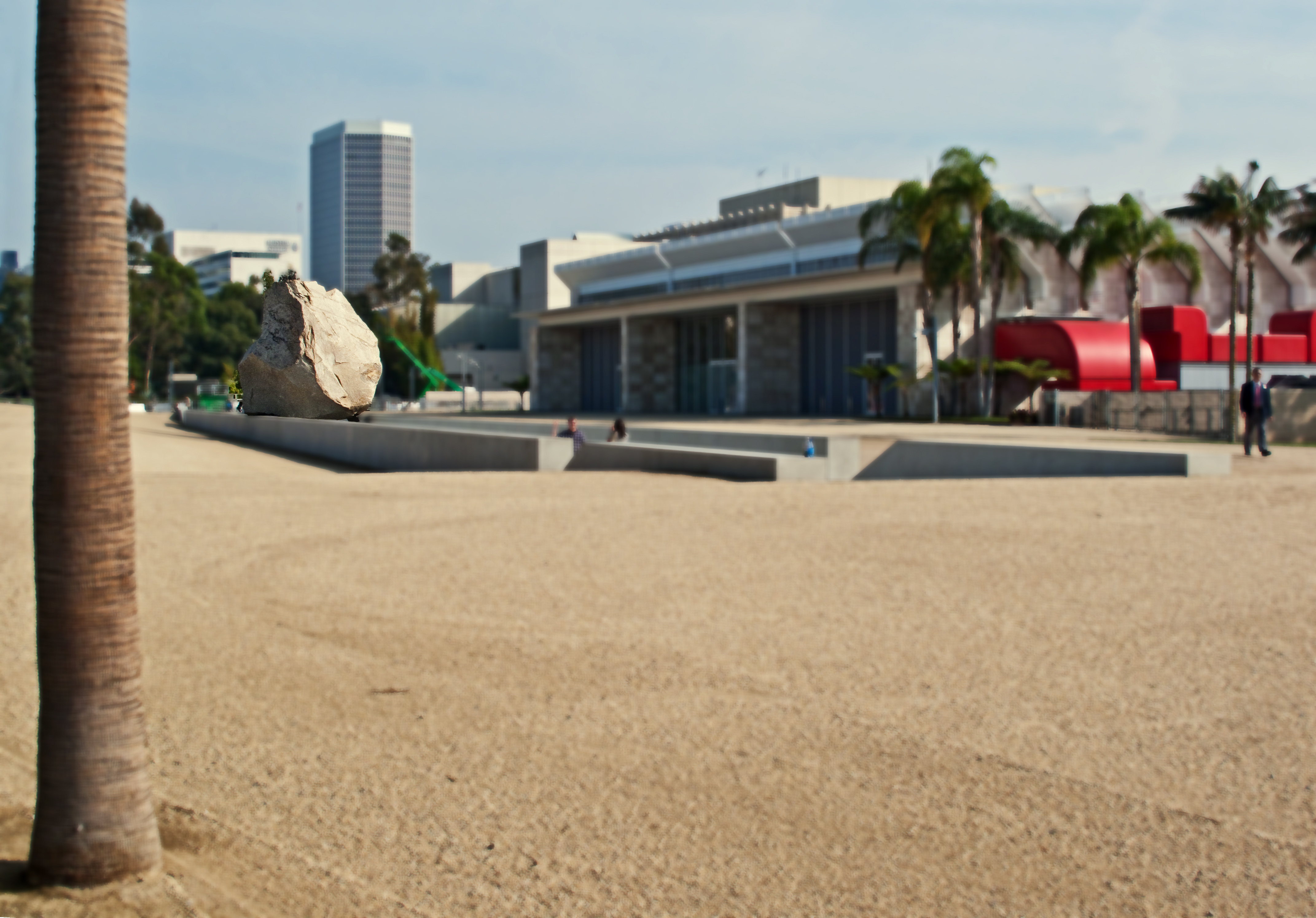 The $10 million rock on display in the back yard of the Los Angeles County Museum of Art.